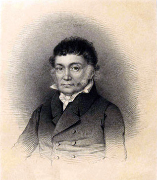 Portrait of Jean-Baptiste Van Mons (1765-1842), Belgian pomologist, horticulturist and chemist, tinted lithograph after Madou, sheet 162 x 238 mm.